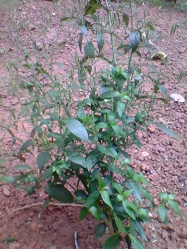 chiretta plant